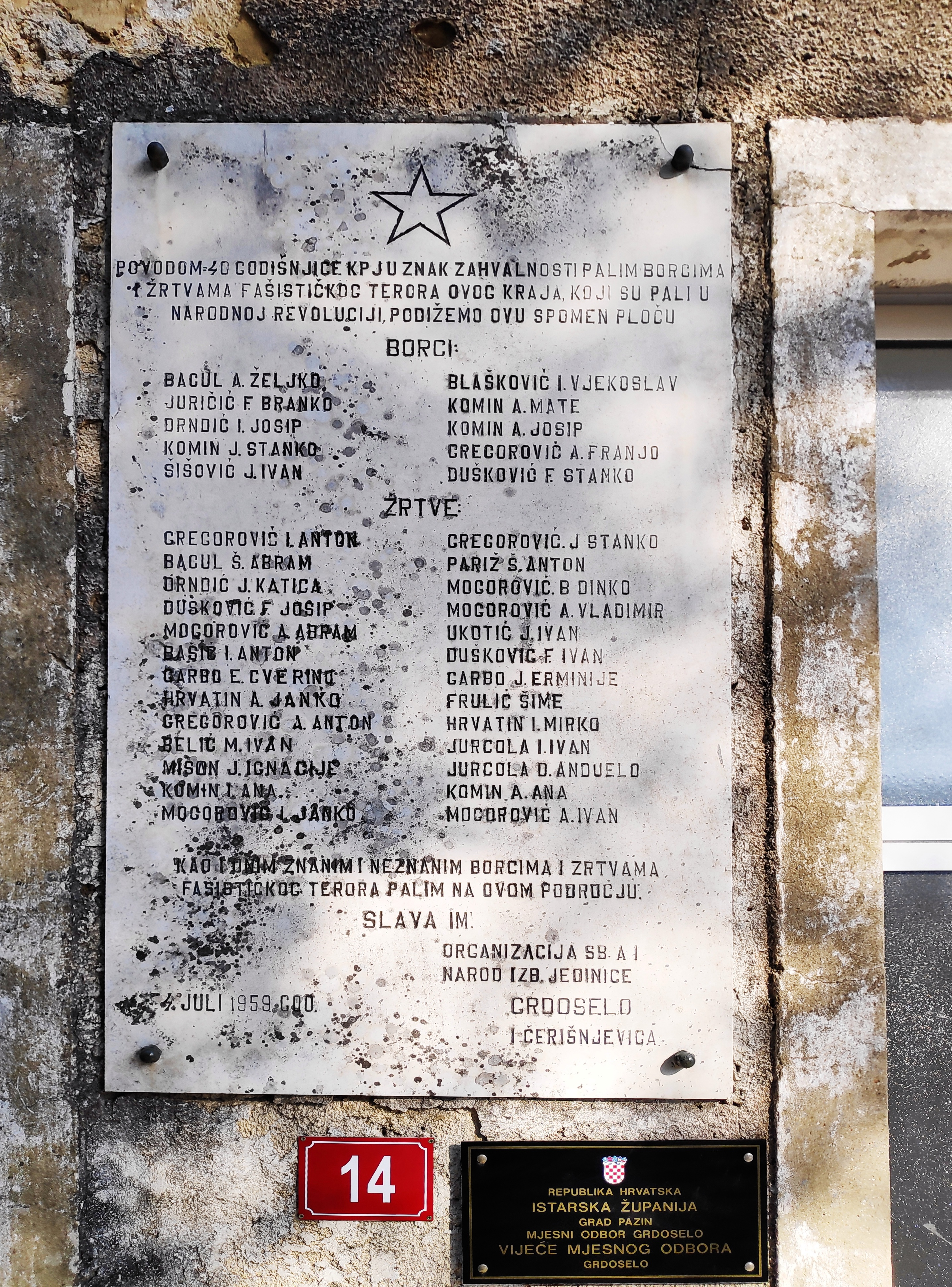 NOB Grdoselo, Istra